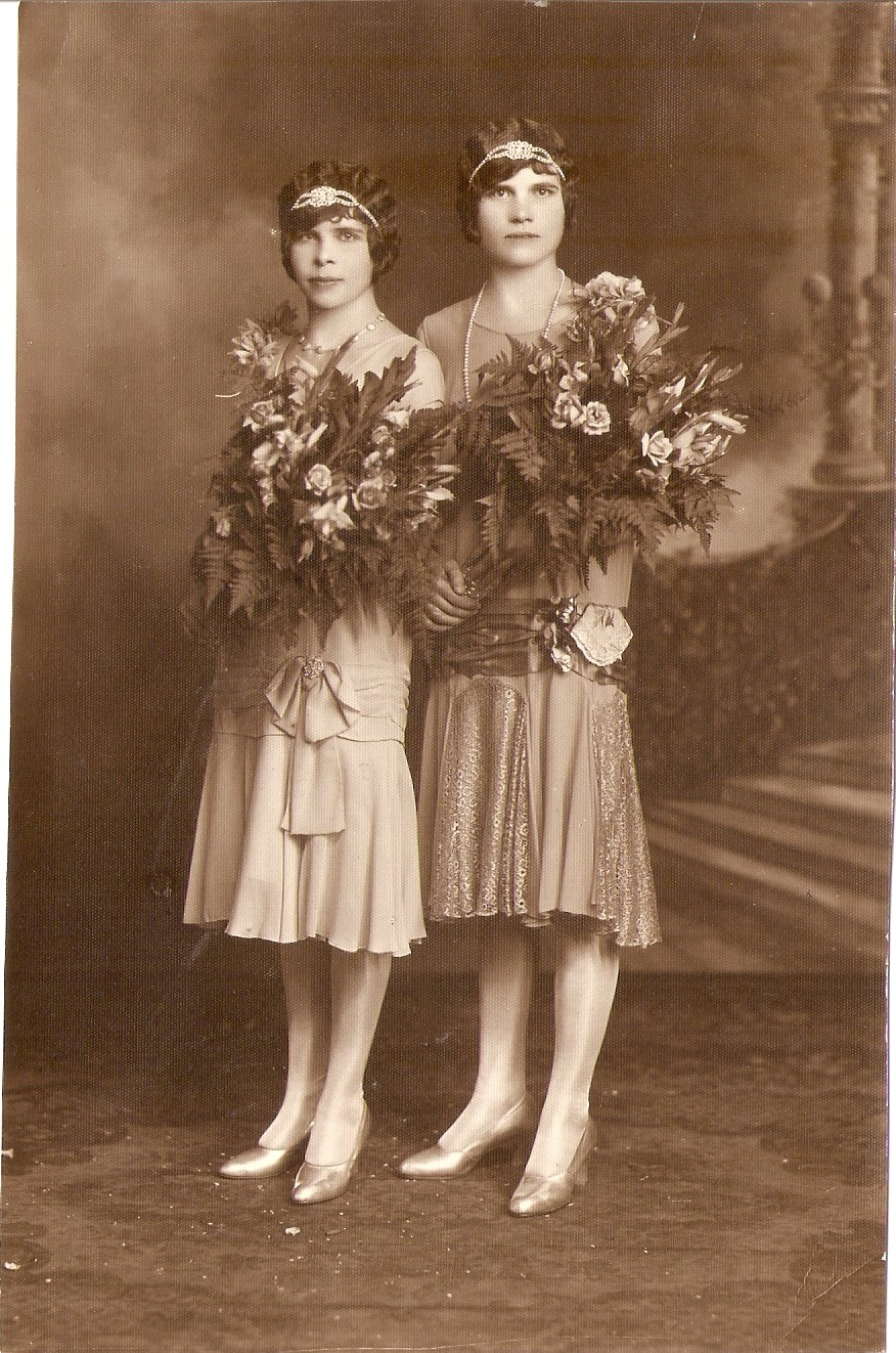 Bridesmaids at a wedding in New York, early 20's